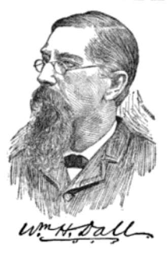 Sketch of william Healey Dall in early middle age.